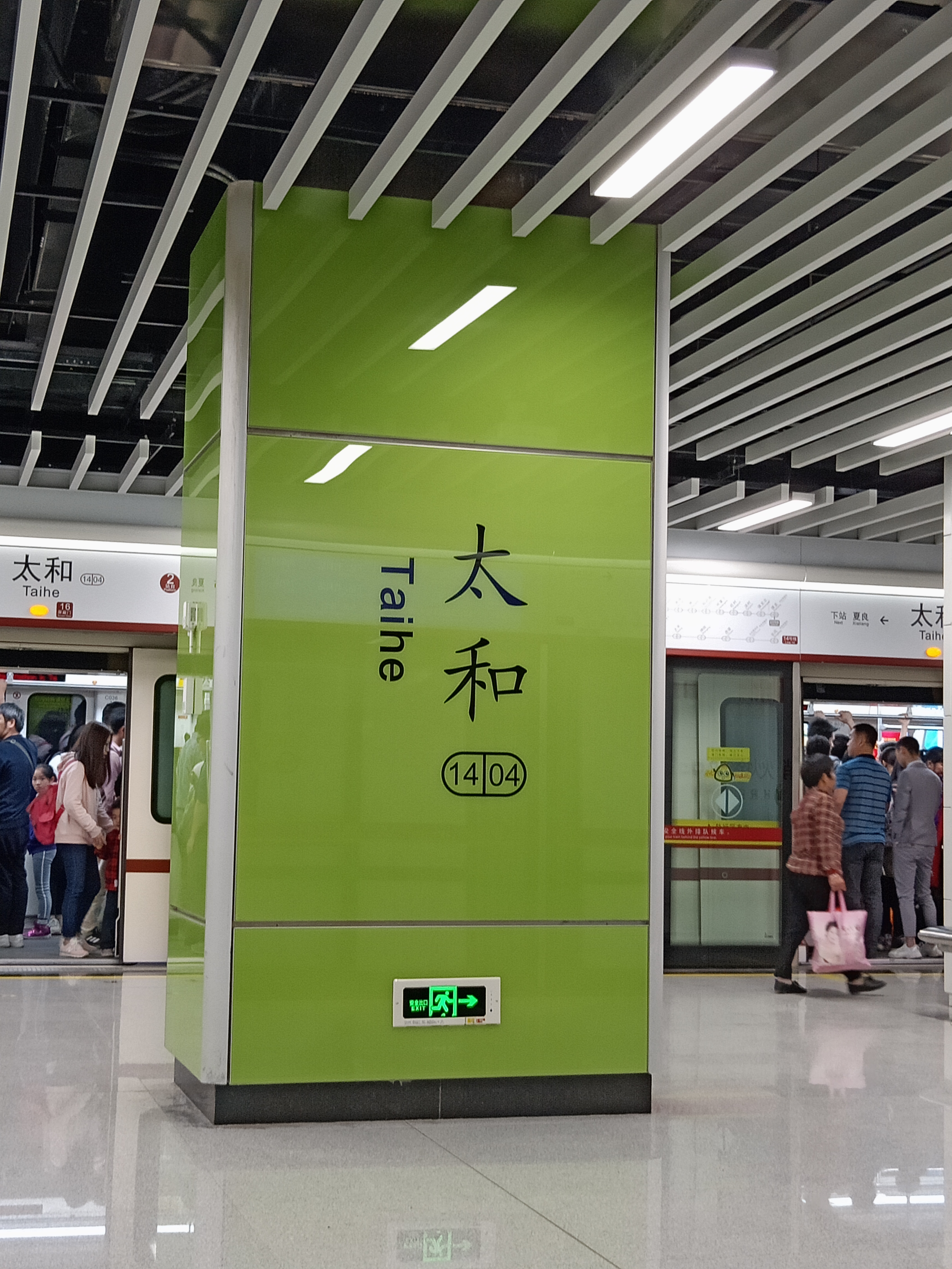 WORD on PILLAR for Taihe Station in Guangzhou Metro